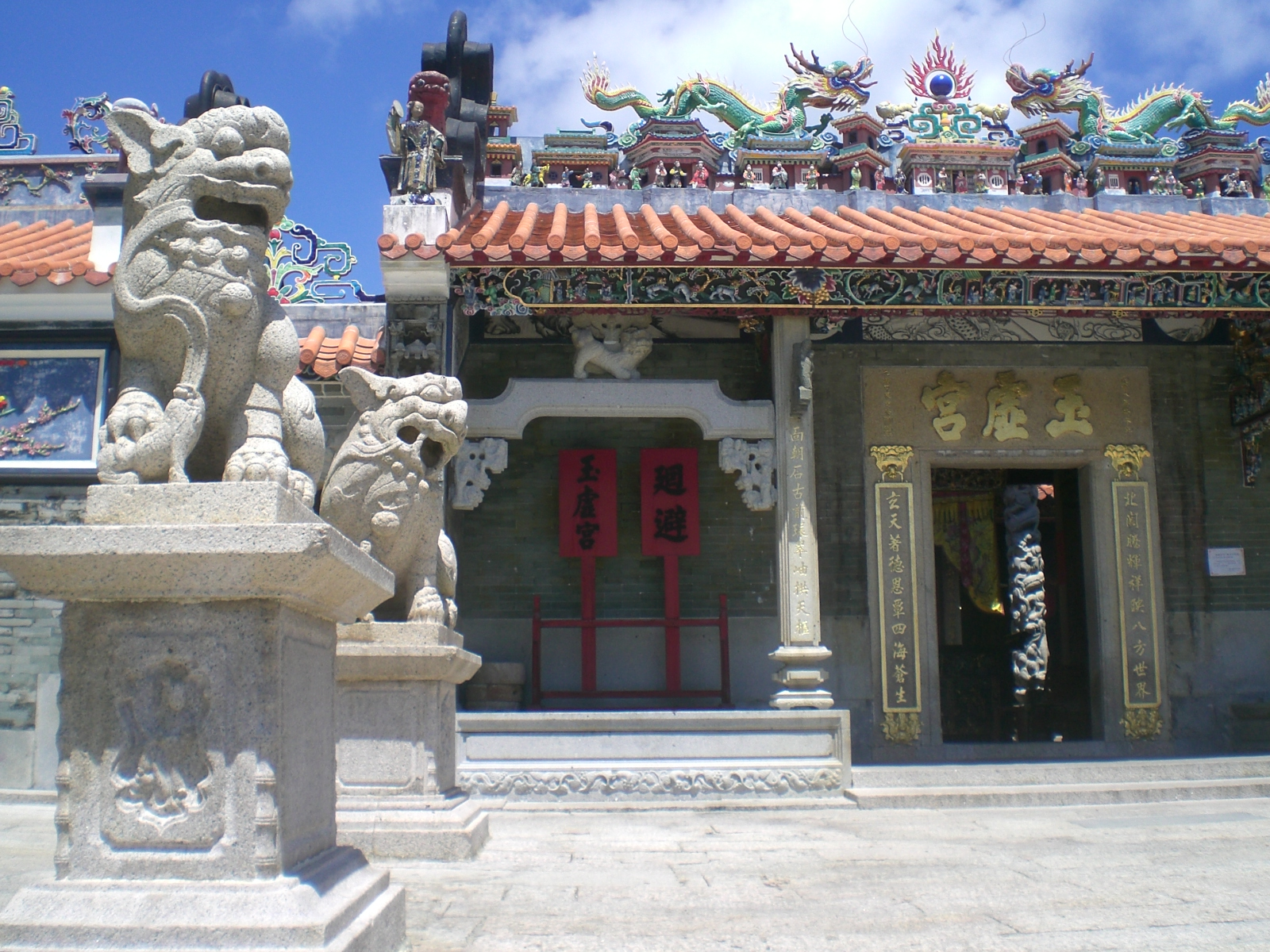 長洲玉虛宮，又名zh:長洲北帝廟，正門前的zh:球場及其它設施